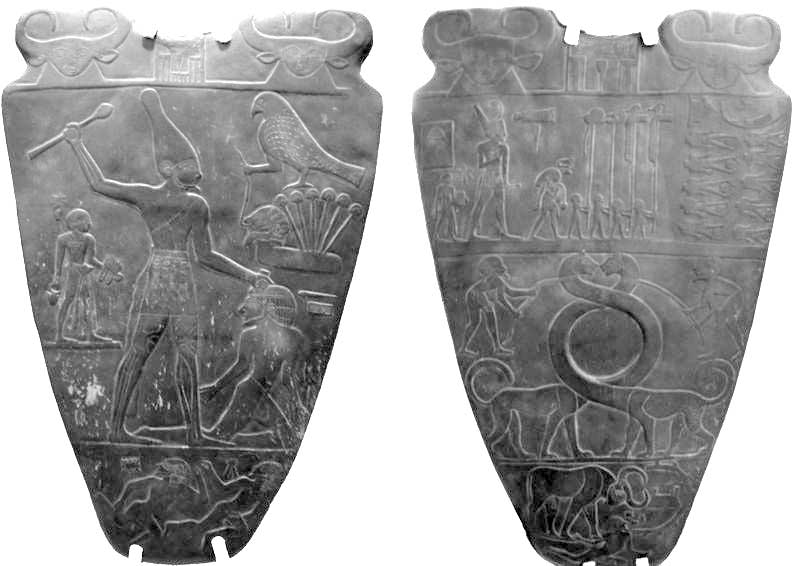 Photo of Full-sized reproduction of the Narmer Palette contained in the Royal Ontario Museum. Background removed for clarity, ditto reason for setting to greyscale. Note presense of holding tongs at top and bottom of image.